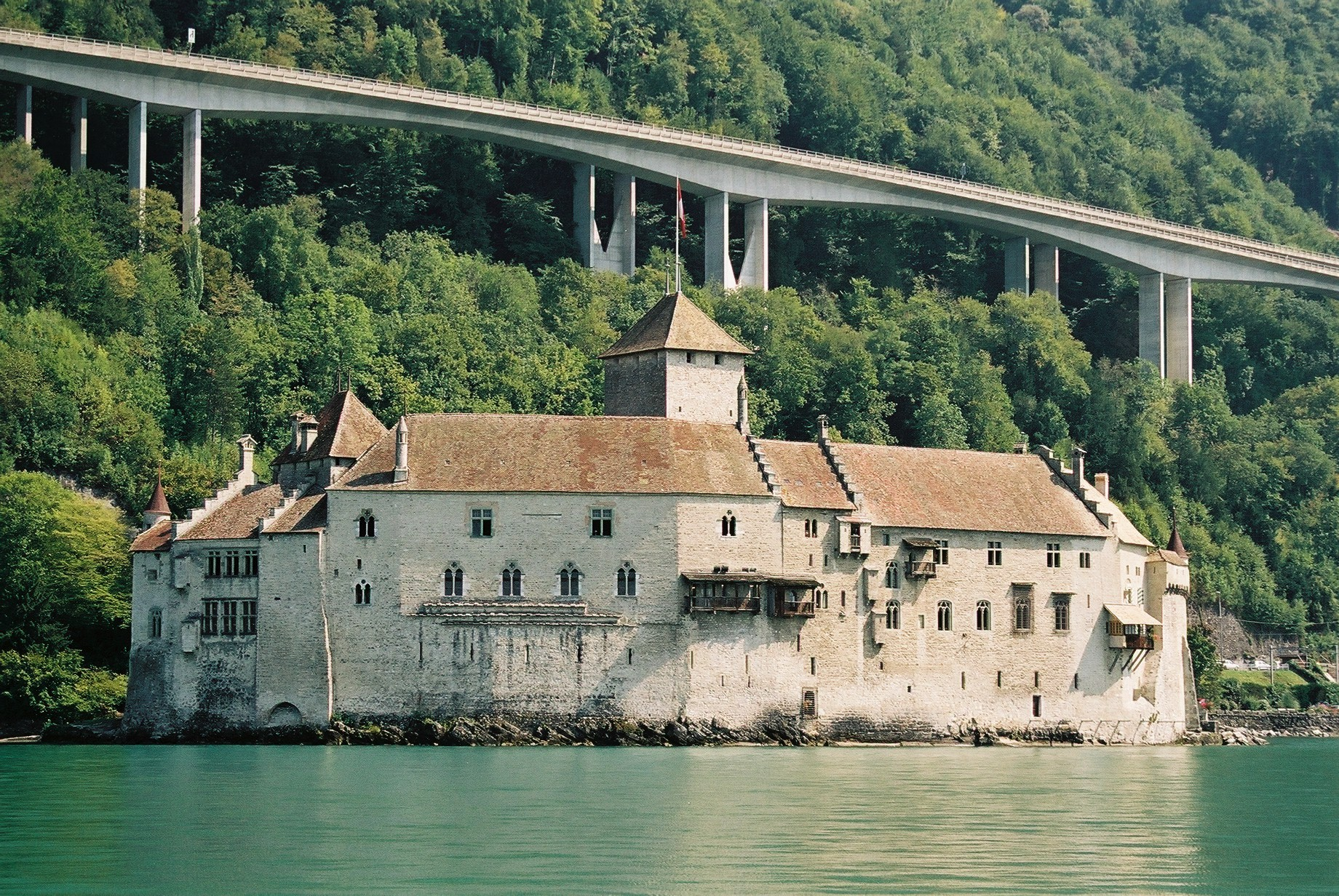 Chillon Castle seen from Geneva Lake